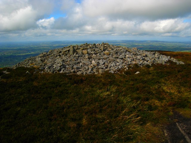 Slieve Gullion, North Cairn Slieve Gullion has two cairns; the north cairn is lower in height than the southern. This is the view looking north.